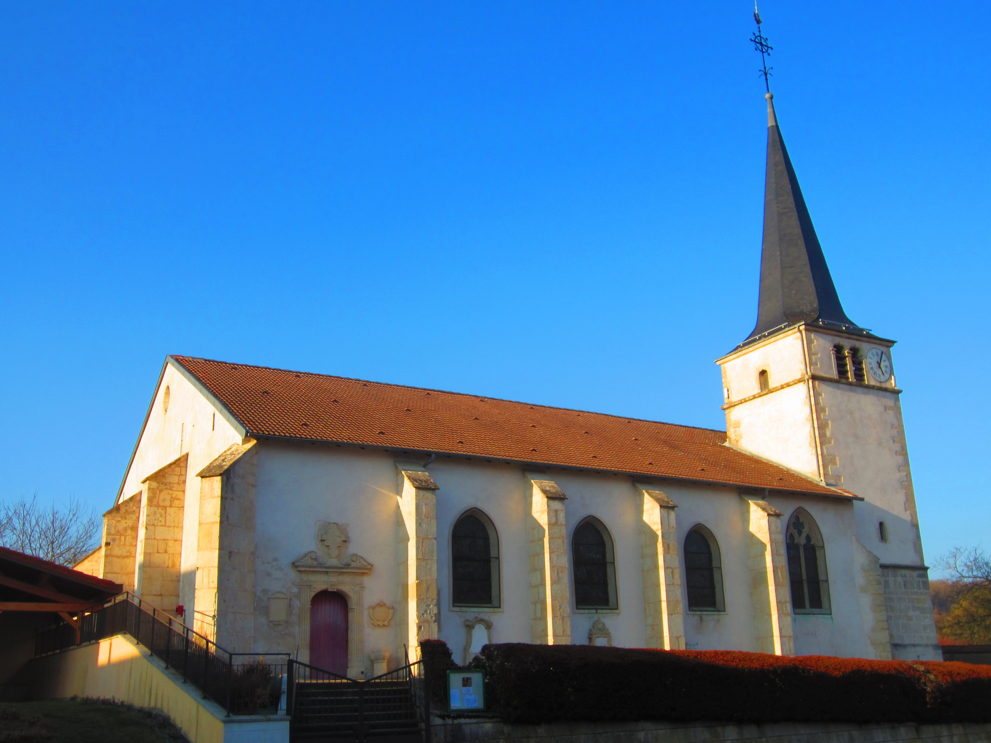 Norroy PAM church